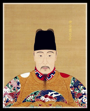 Portrait of Emperor Shizong of Ming Dynasty China